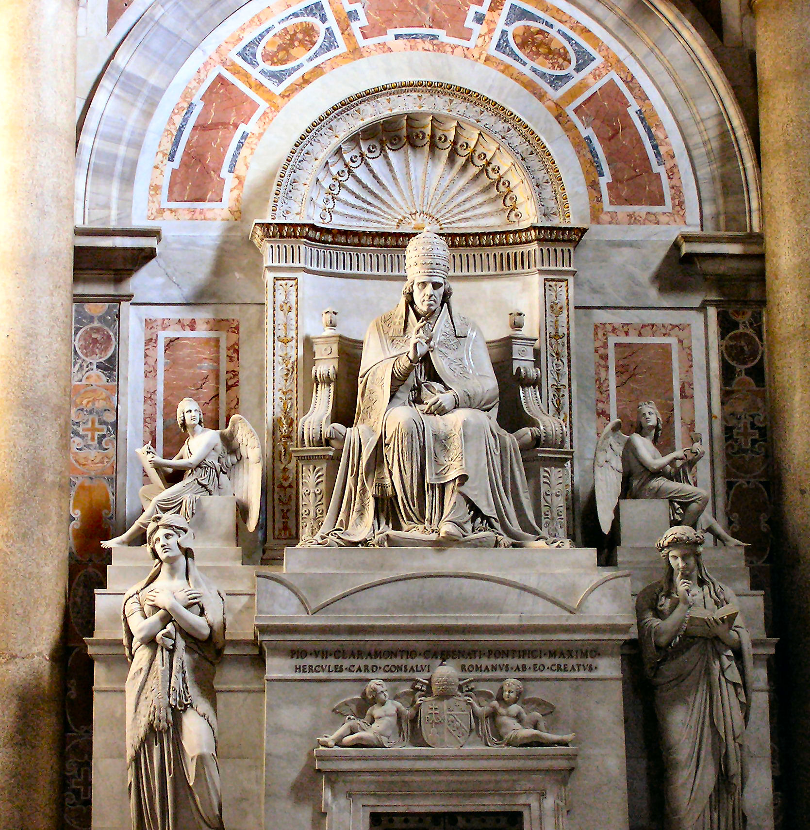 Cenothaph for pope Pius VII in Saint Peter's Basilica, Rome, by Bertel Thorvaldsen 1824-25.